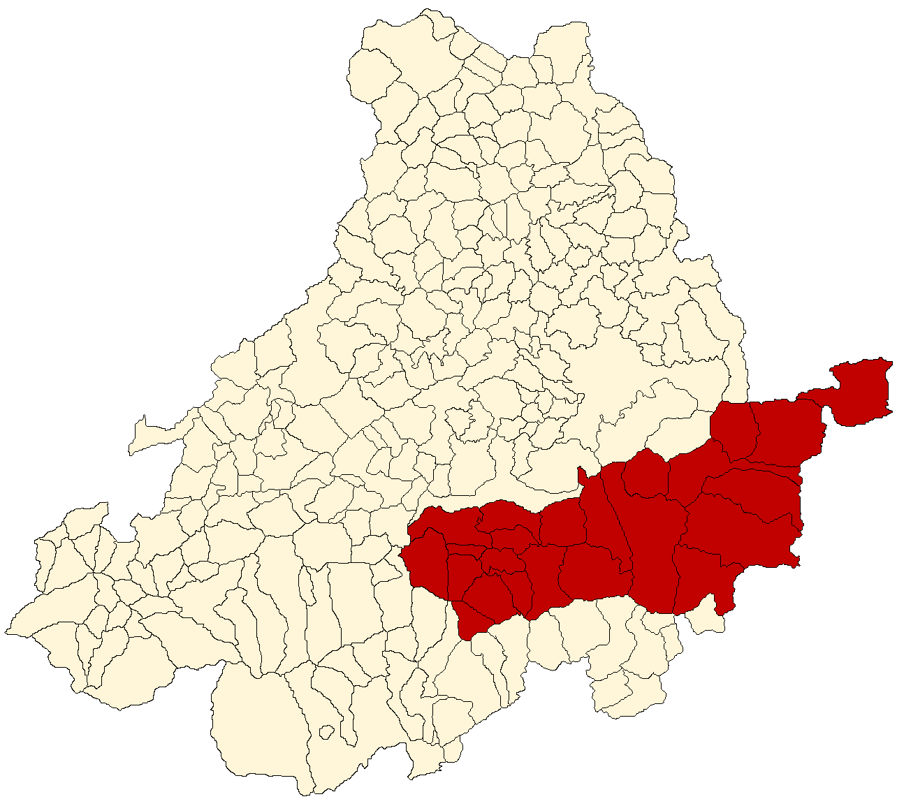 Map of region of Burgohondo-El Tiemblo-Cebreros